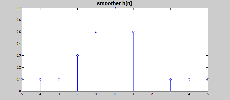 smoother example